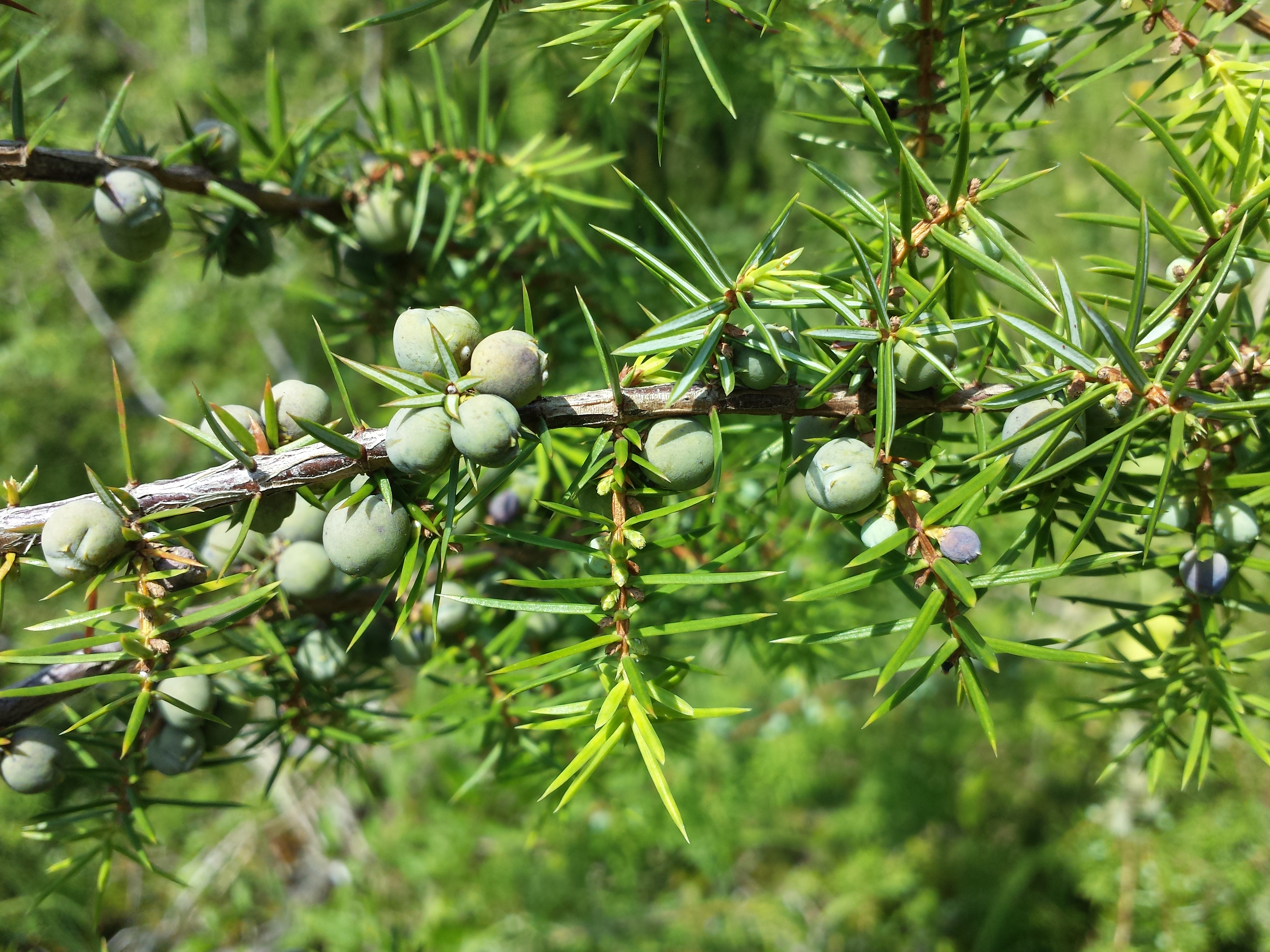 Infructescence Taxonym: Juniperus communis subsp. communis ss Fischer et al. EfÖLS 2008 ISBN 978-3-85474-187-9 Location: nearby Würfelberg near Bergau, district Hollabrunn, Lower Austria - ca. 275 m a.s.l. Habitat: former wine yard